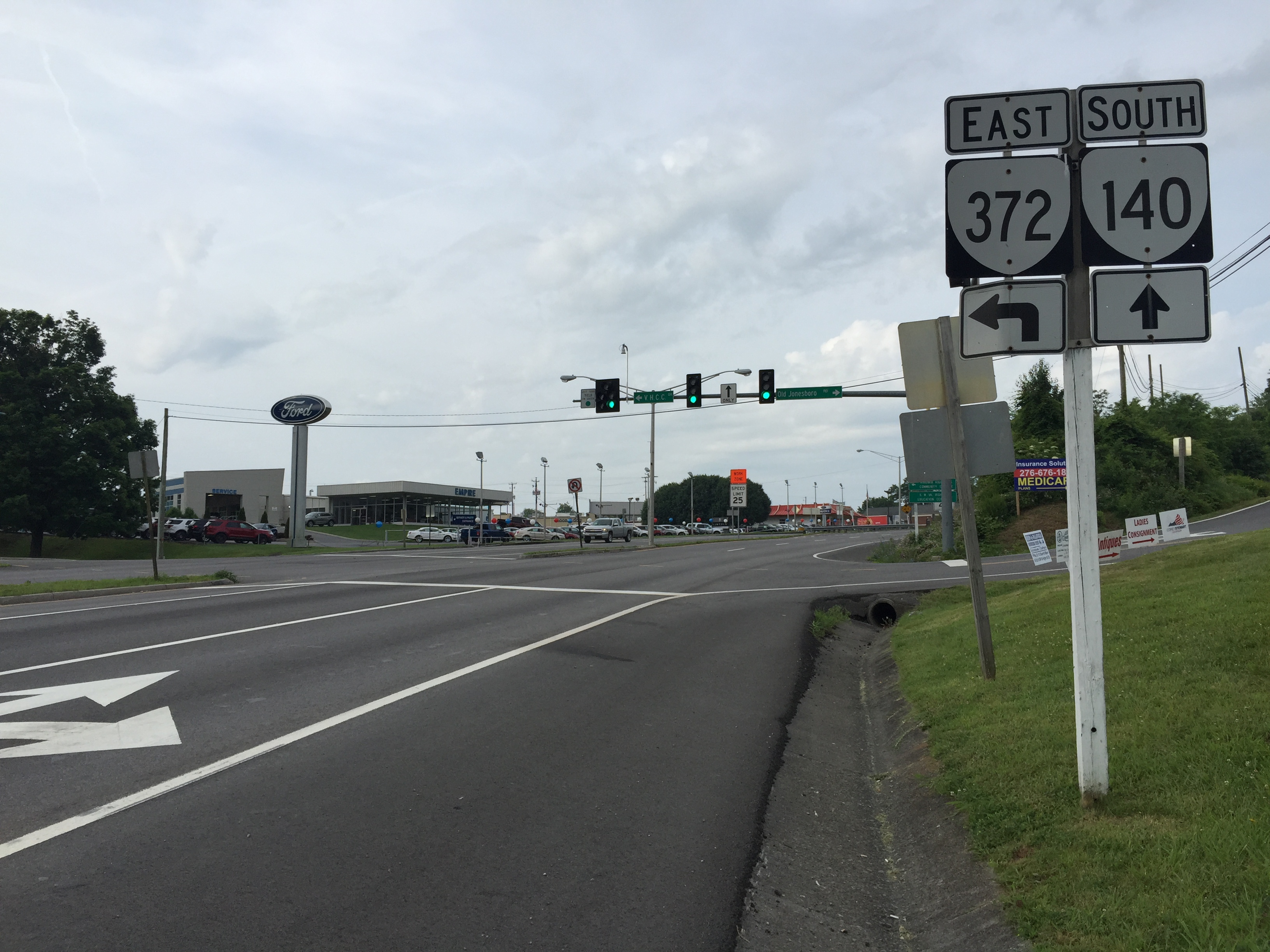 View south along Virginia State Route 140 (Old Jonesboro Road) at Virginia State Route 372 (Virginia Highland Community College Drive) in Abingdon, Washington County, Virginia